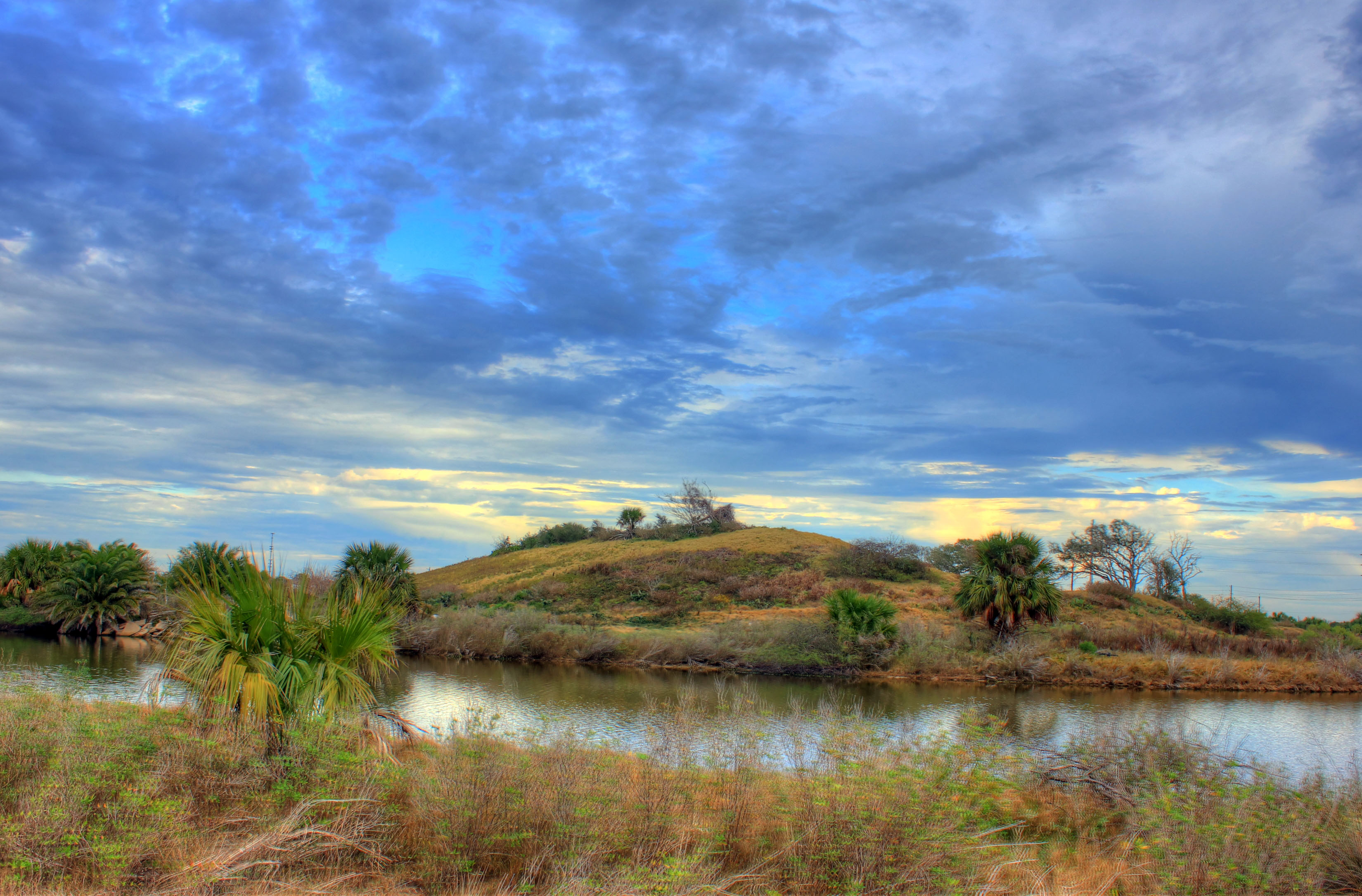 Galveston Island State Park — located on Galveston Island, on the Gulf Coast of Texas. Shoreline with dune plants on an inlet bay of Galveston Bay.